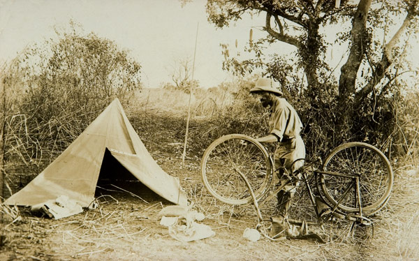 A bicycle mending. The photo probably taken by Kazimierz Nowak (1897-1937, the author is on the photo; taken probably by a self-timer) during his trip through Africa - a Polish traveller, correspondent and photographer. Probably the first man in the world who crossed Africa alone from the North to the South and from the South to the North (from 1931 to 1936; on foot, by bicycle and canoe).